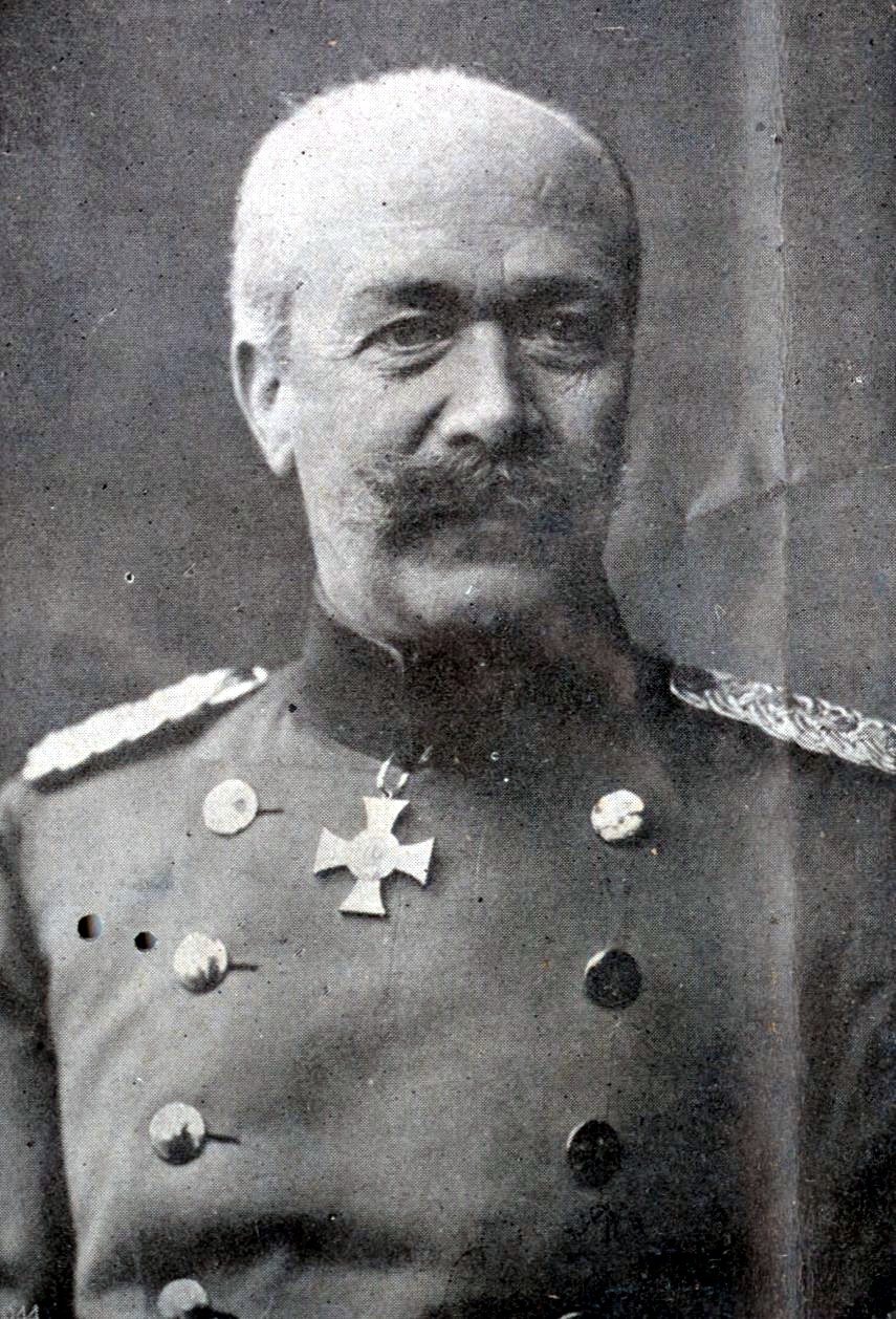 Hermann von François